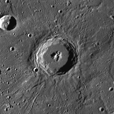 Janáček crater, on Mercury. MESSENGER Wide Angle Camera mosaic. Image is approximately 133 km wide.